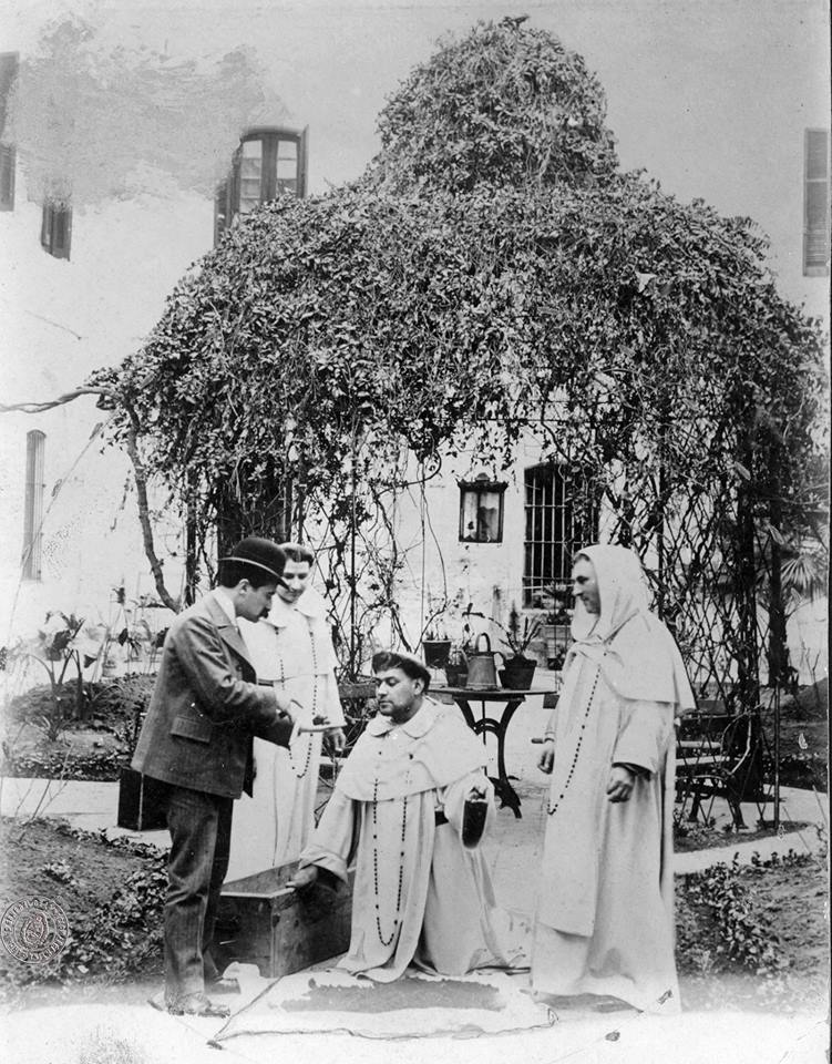 The ashes from Manuel Belgrano's body, after being exhumated from the Santo Domingo Convent's atrium, Buenos Aires. In 1903, a mausoleum was inaugurated to honor the Argentine hero and creator of the national flag.